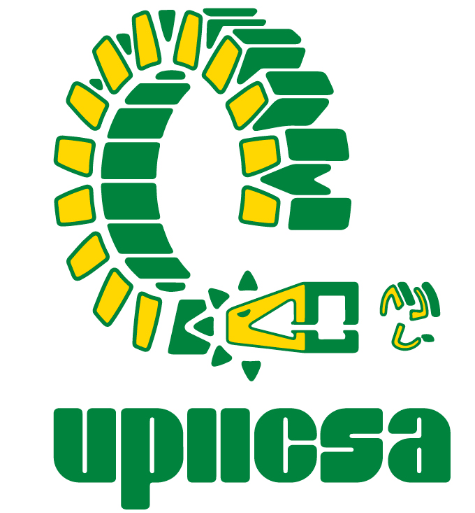 Symbole